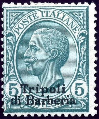 Postage stamp of Italy, overprinted 'Tripoli di Barberia' for use in Italian post offices in Tripoli, 5 centesimi, 1909, Sassone#3